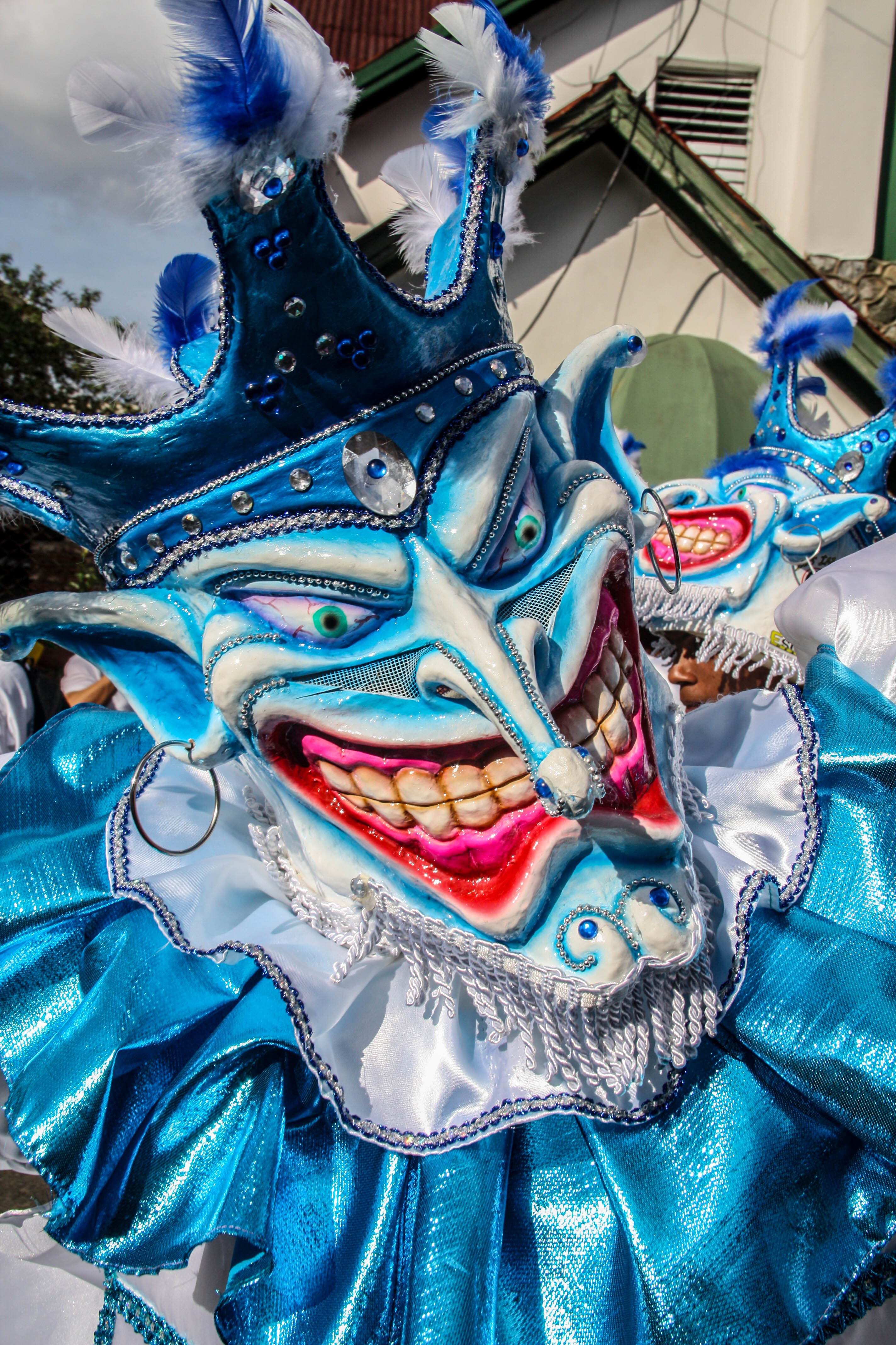 Carnival in Concepción de La Vega, Dominican Republic